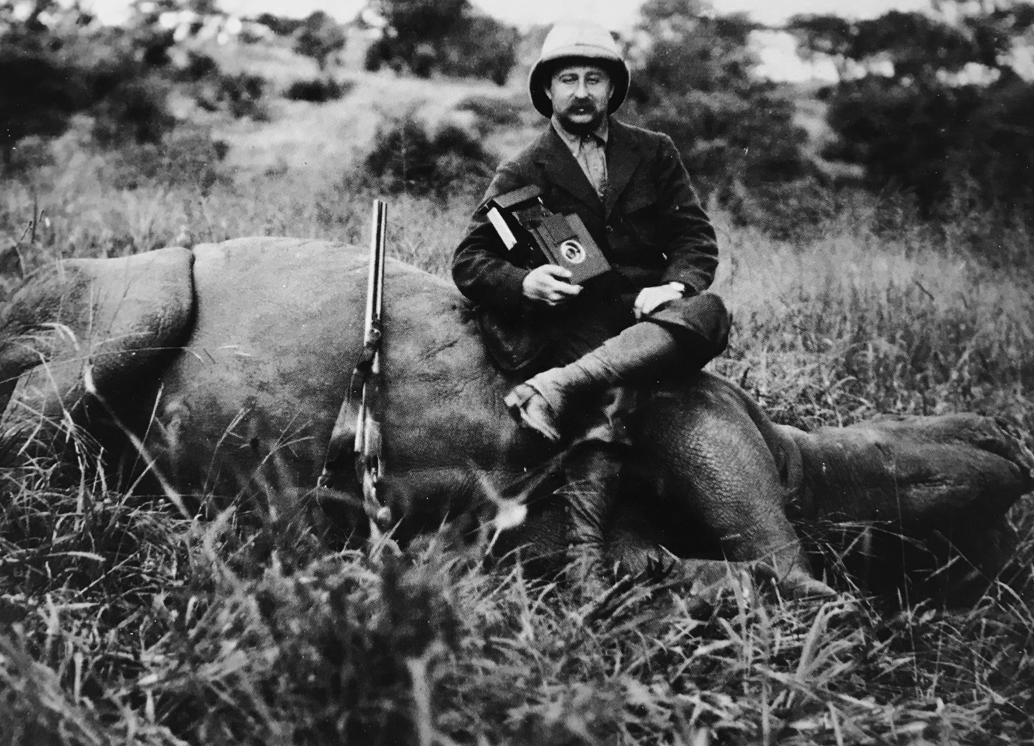 The 17th Duke of Medinaceli, Luis Fernández de Córdoba y Salabert posing with a harvested Elephant, shot with a Holland & Holland cordite .465 Nitro Express, during the 1908-1909 British East Africa Safari.